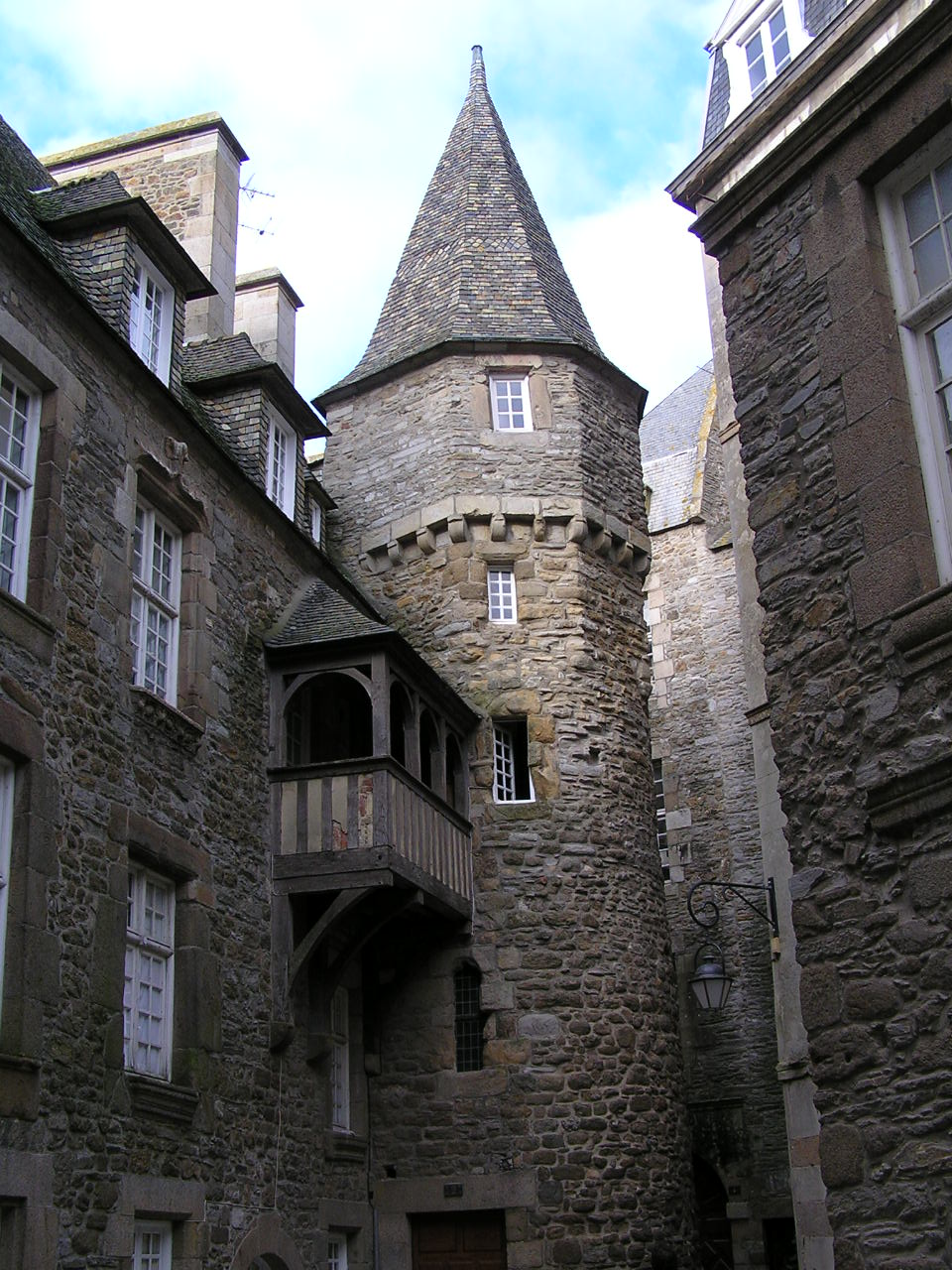 The house of Anne of Brittany in Saint-Malo, Ille-et-Vilaine (France).